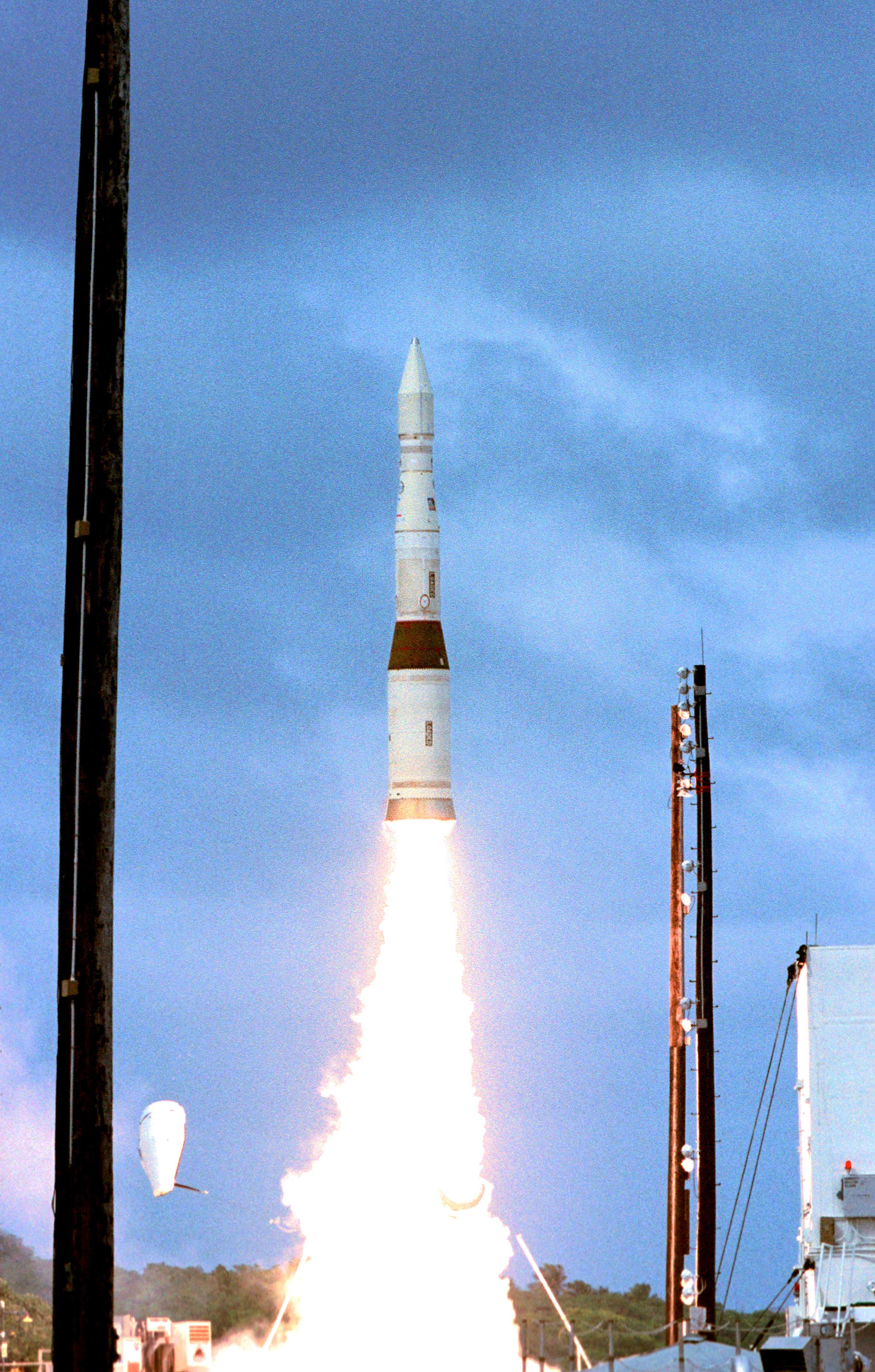 A payload launch vehicle carrying a prototype exoatmospheric kill vehicle is launched from Meck Island at the Kwajalein Missile Range on Dec. 3, 2001, for a planned intercept of a ballistic missile target over the central Pacific Ocean. The target vehicle, a modified Minuteman intercontinental ballistic missile, will be launched from Vandenberg Air Force Base, Calif. The interceptor is planned to hit the target more than 140 miles above the Earth during the midcourse phase of the warhead's flight.